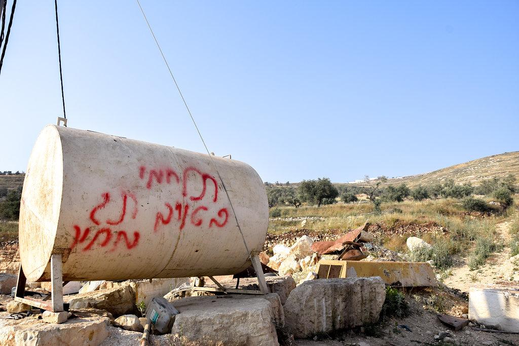 “Fight the enemy. Price Tag.” Graffiti settlers spray-painted in Hebrew on a water tank in the village of ‘Urif, Nablus District. Photo by Salma a-Deb’i, B’Tselem, 29 April 2018.